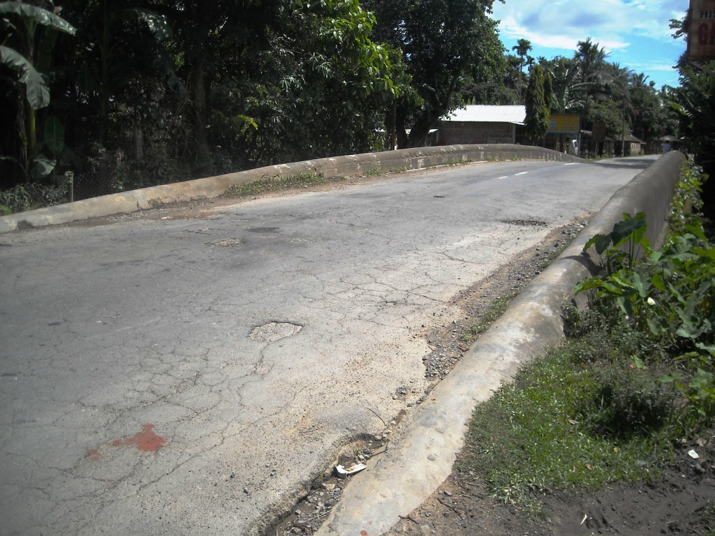 Namdang stone bridge, located a few kilometers away from Sivasagar town, was constructed in 1703 during the reign of Ahom king Rudra Singha. It was cut out from a single piece of stone.